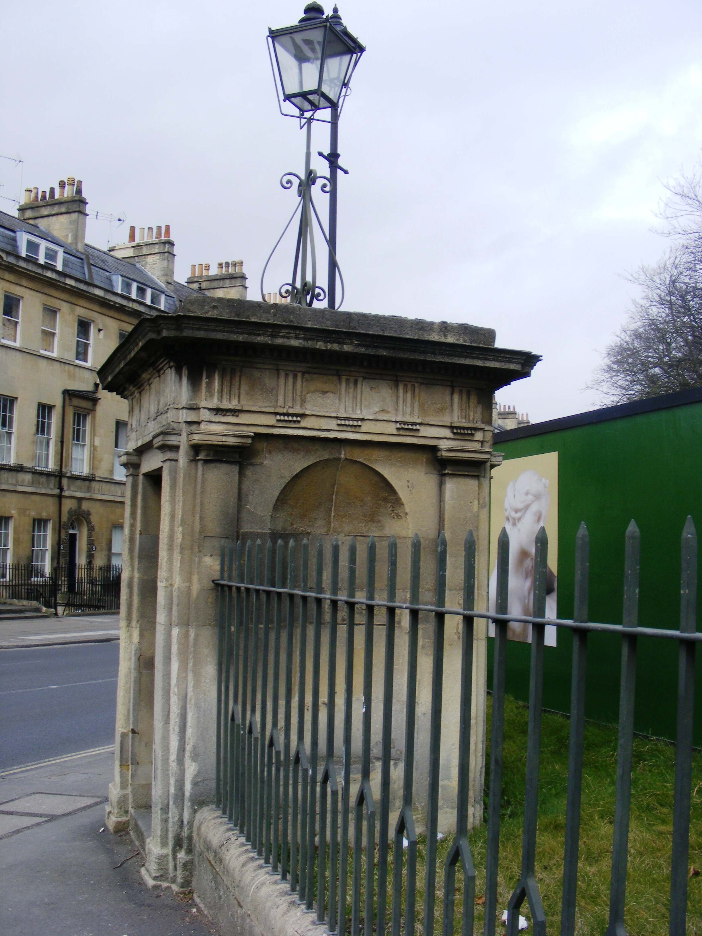 Watchmans Box, outside the Houlbourne Museum, Sydney Place, Bath